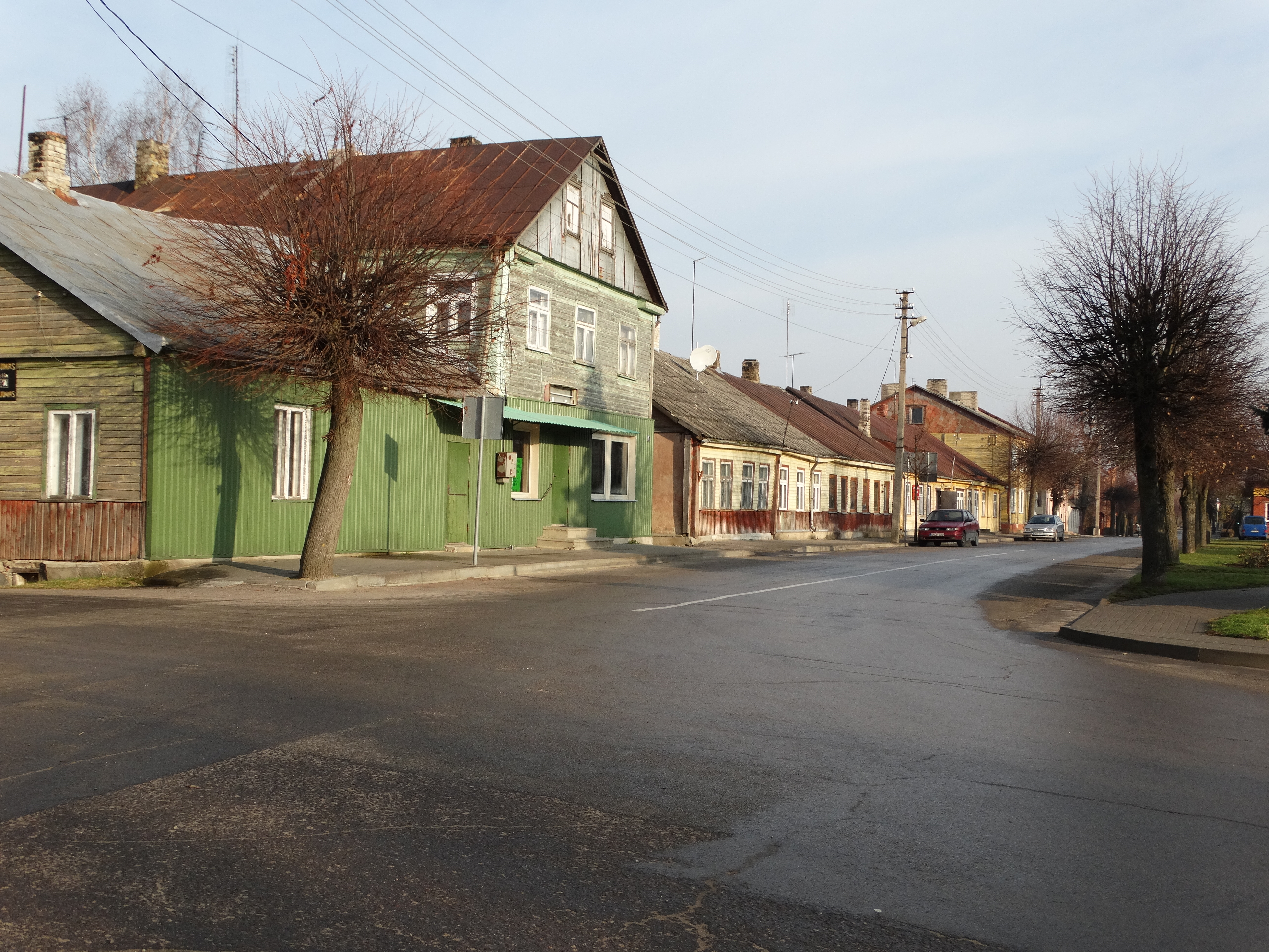 Vabalninkas, Lithuania